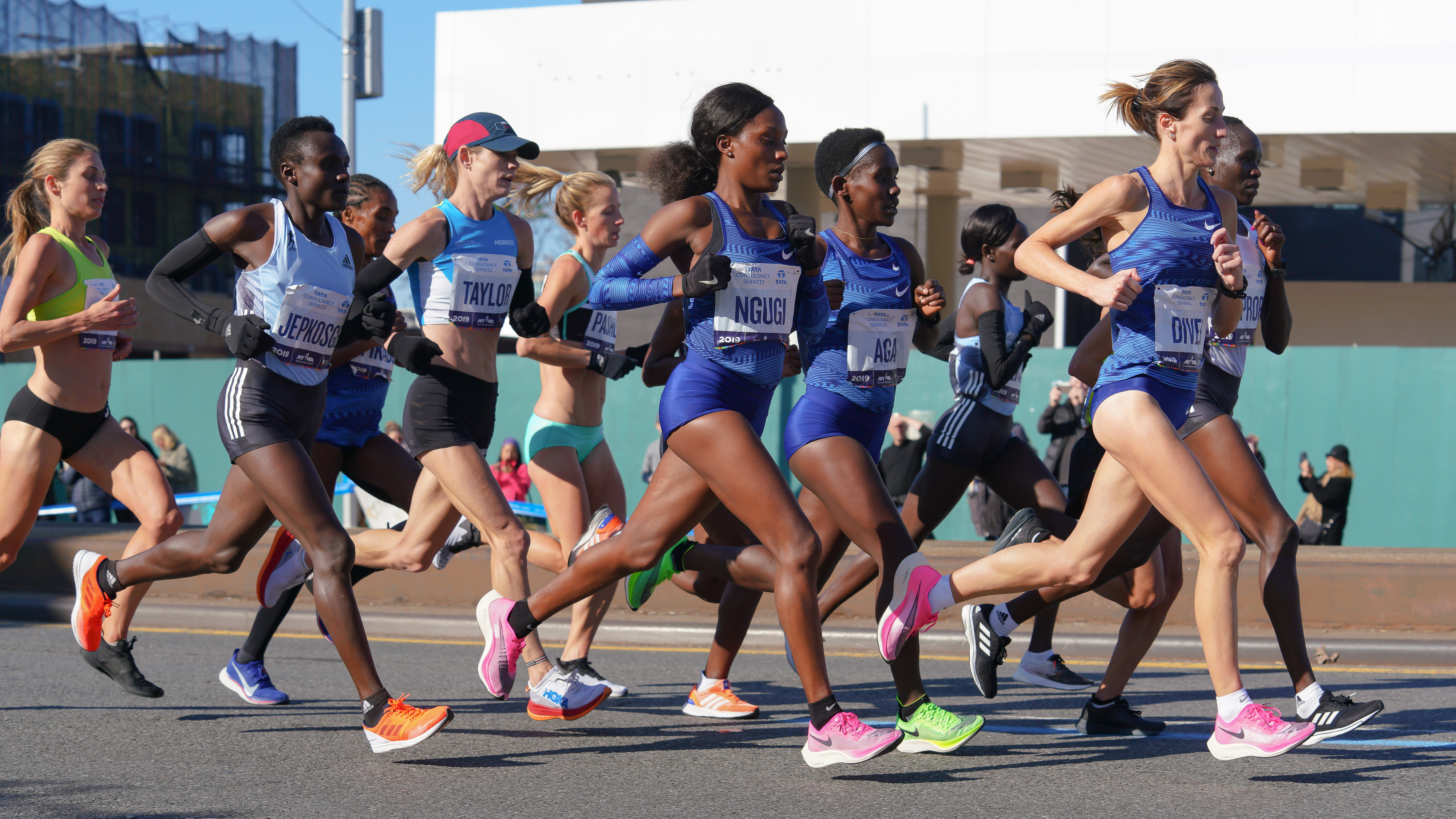 November 3, 2019 Along Fourth Avenue in Brooklyn The women's elite runners leaders.